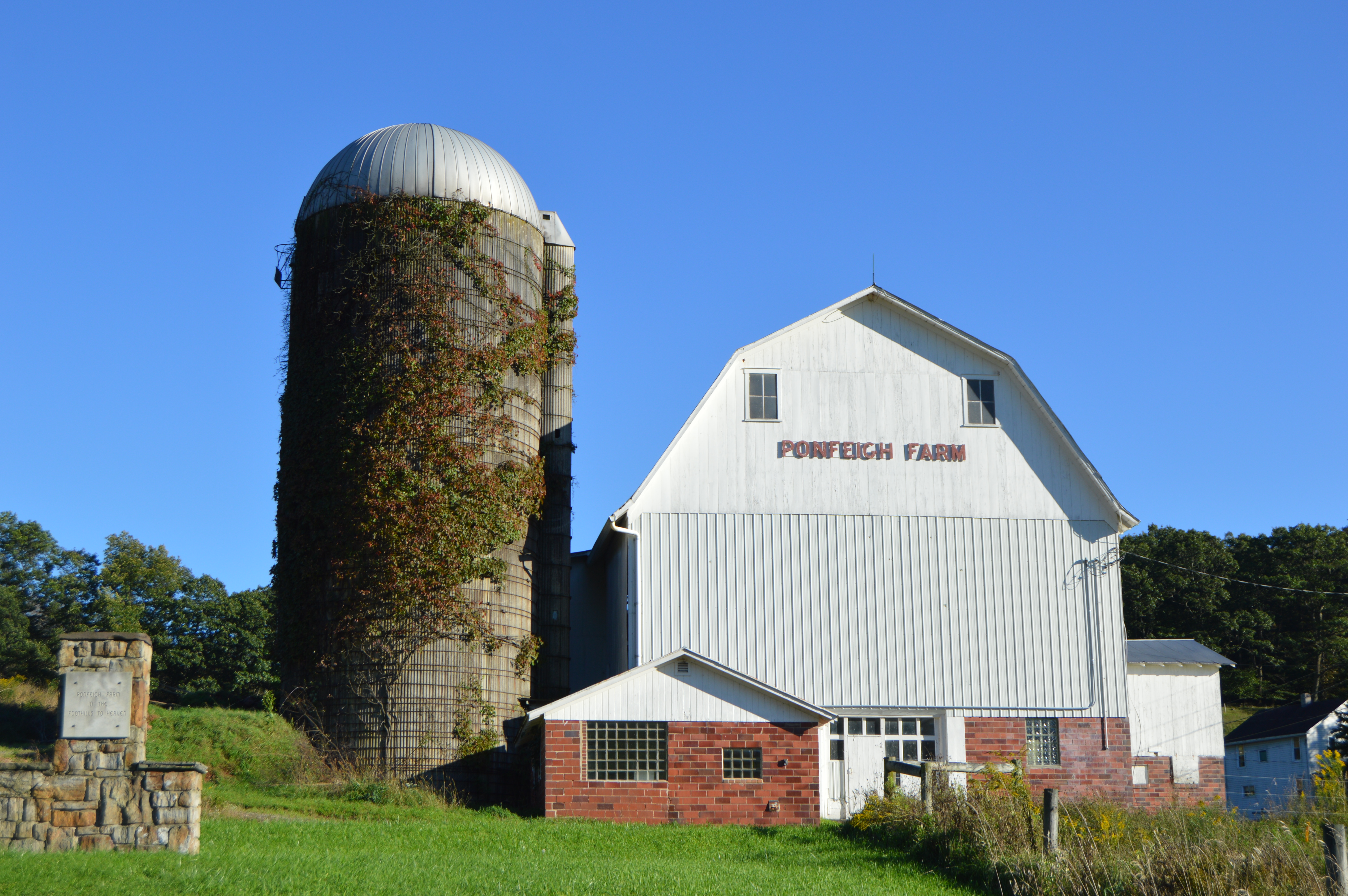 Front of a barn on Brush Creek Road at the Glencoe Road intersection in Northampton Township, Somerset County, Pennsylvania, United States.